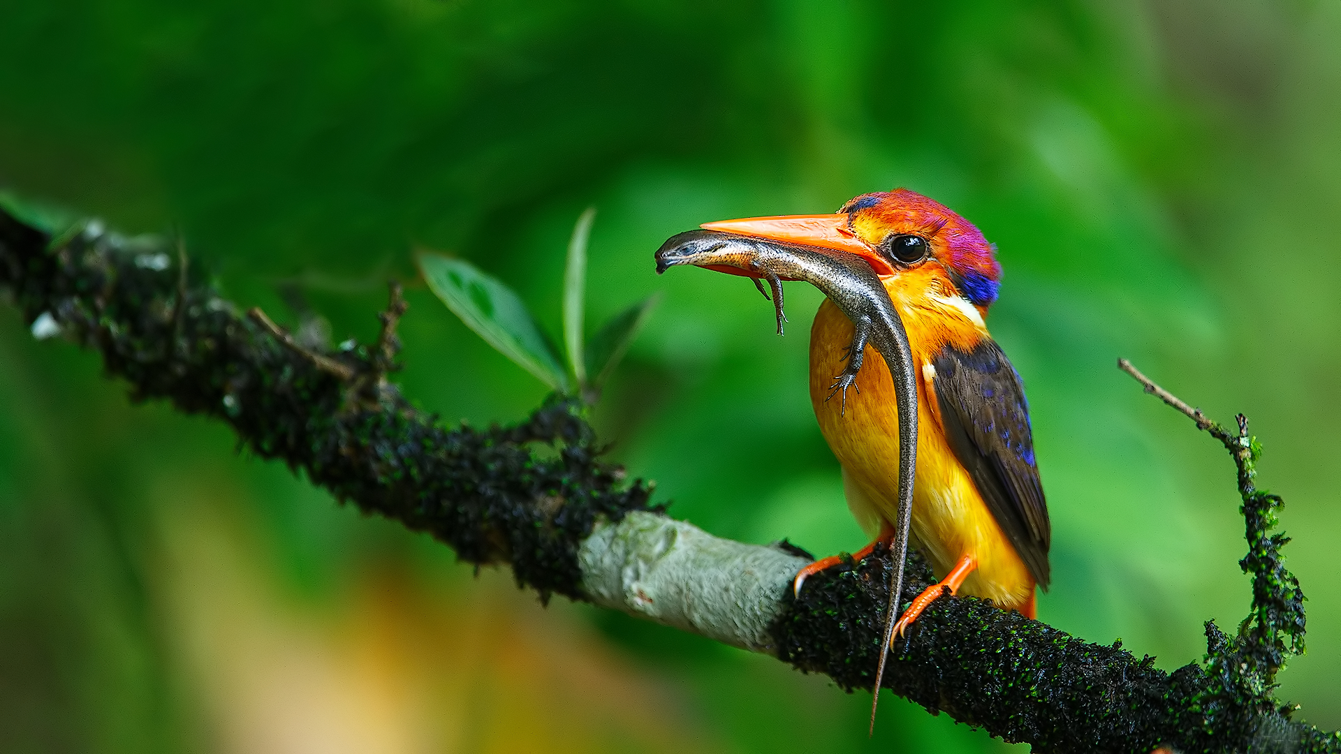 Oriental Dwarf Kingfisher at Shiravali